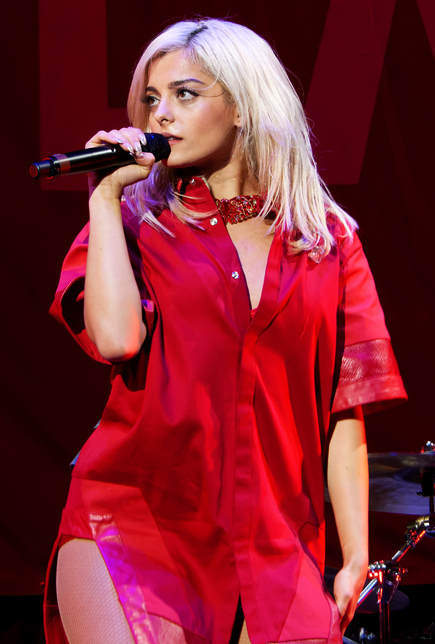 Bebe Rexha performing live at Staples Center in downtown Los Angeles, California on Friday April 8th, 2016. Bebe opened for Ellie Goulding on her Delirium World Tour.